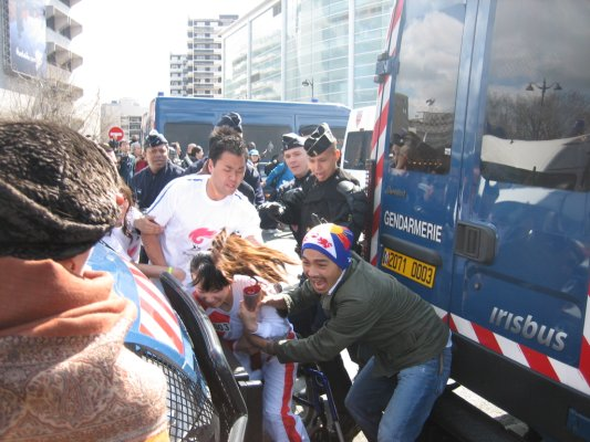 2008 Summer Olympics torch relay passes through Paris carried by Jin Jing.